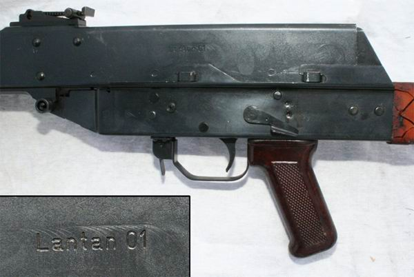 prototype of Lantan rifle